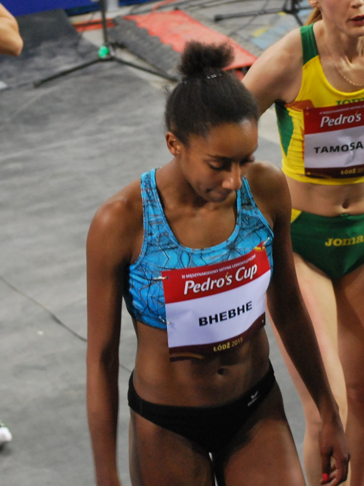 Pedros Cup 2015 Łódź, Urszula Bhebhe, hurdler from Poland